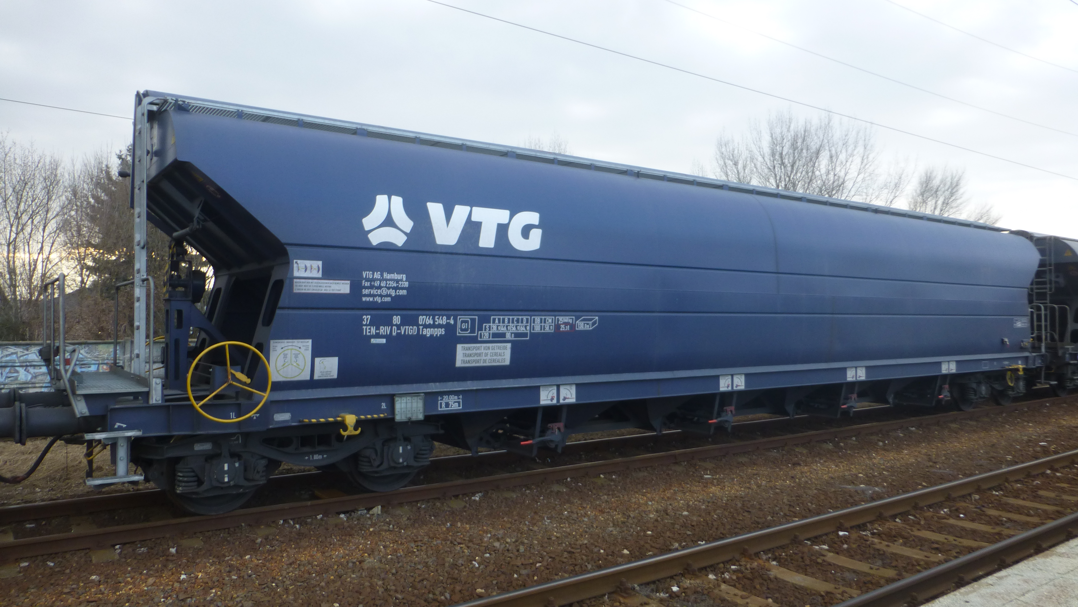 Type Tagnpps rail cargo wagon of the german VTG company in Albertirsa, Hungary.